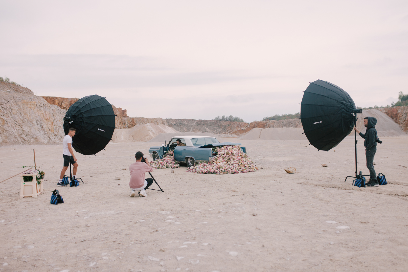 Backstage photo of the photoshoot I Bloom For You, 2018